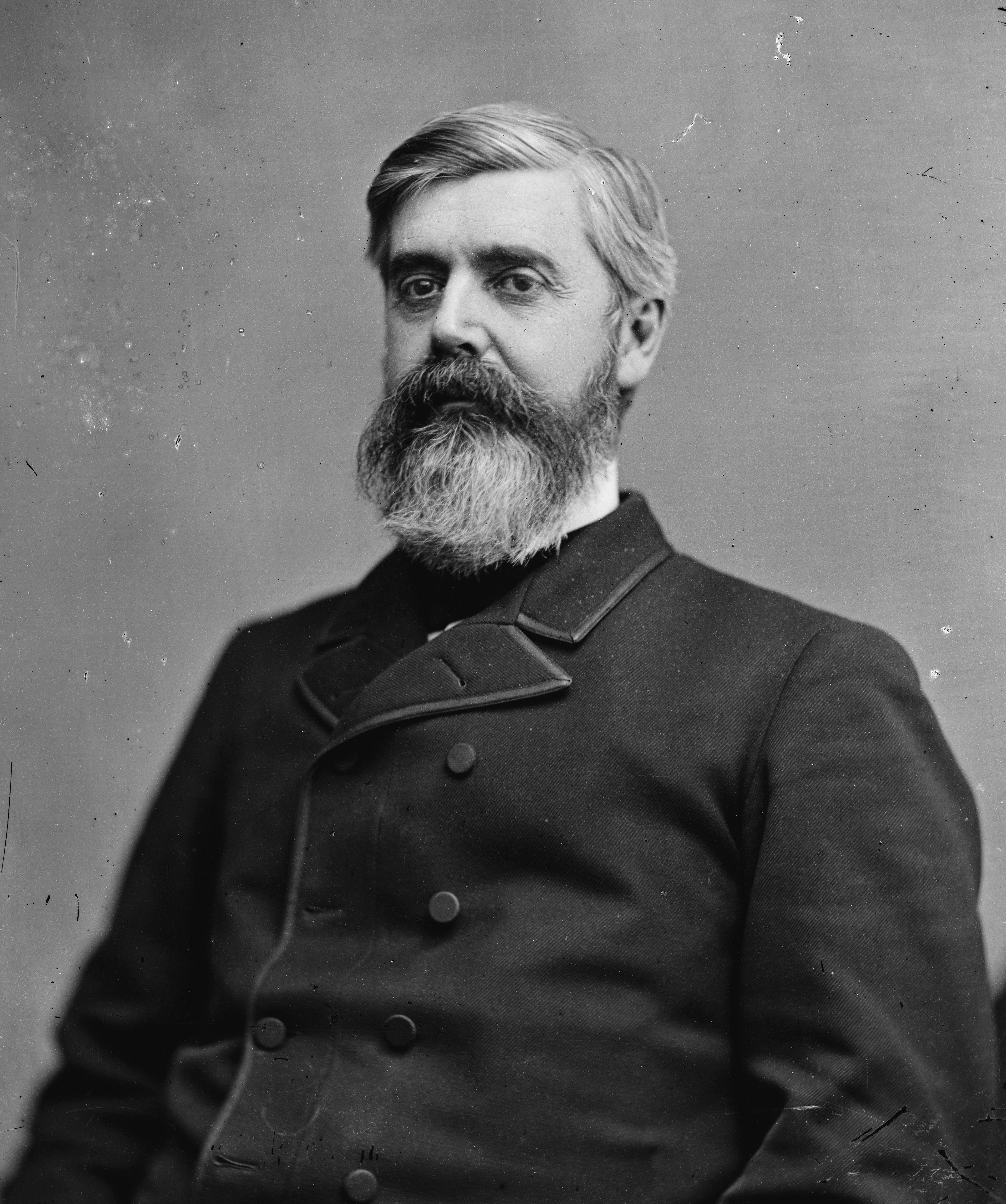 Walter Q. Gresham. Library of Congress description: "Gresham, Walter Quintin"